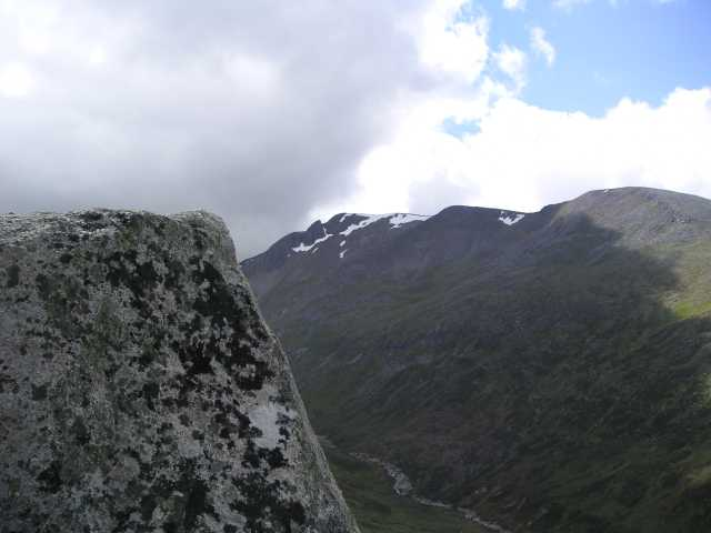 Ben Nevis: the summit is out of sight to the left, the neighbouring peak of Carn Mor Dearg is visible to the right.